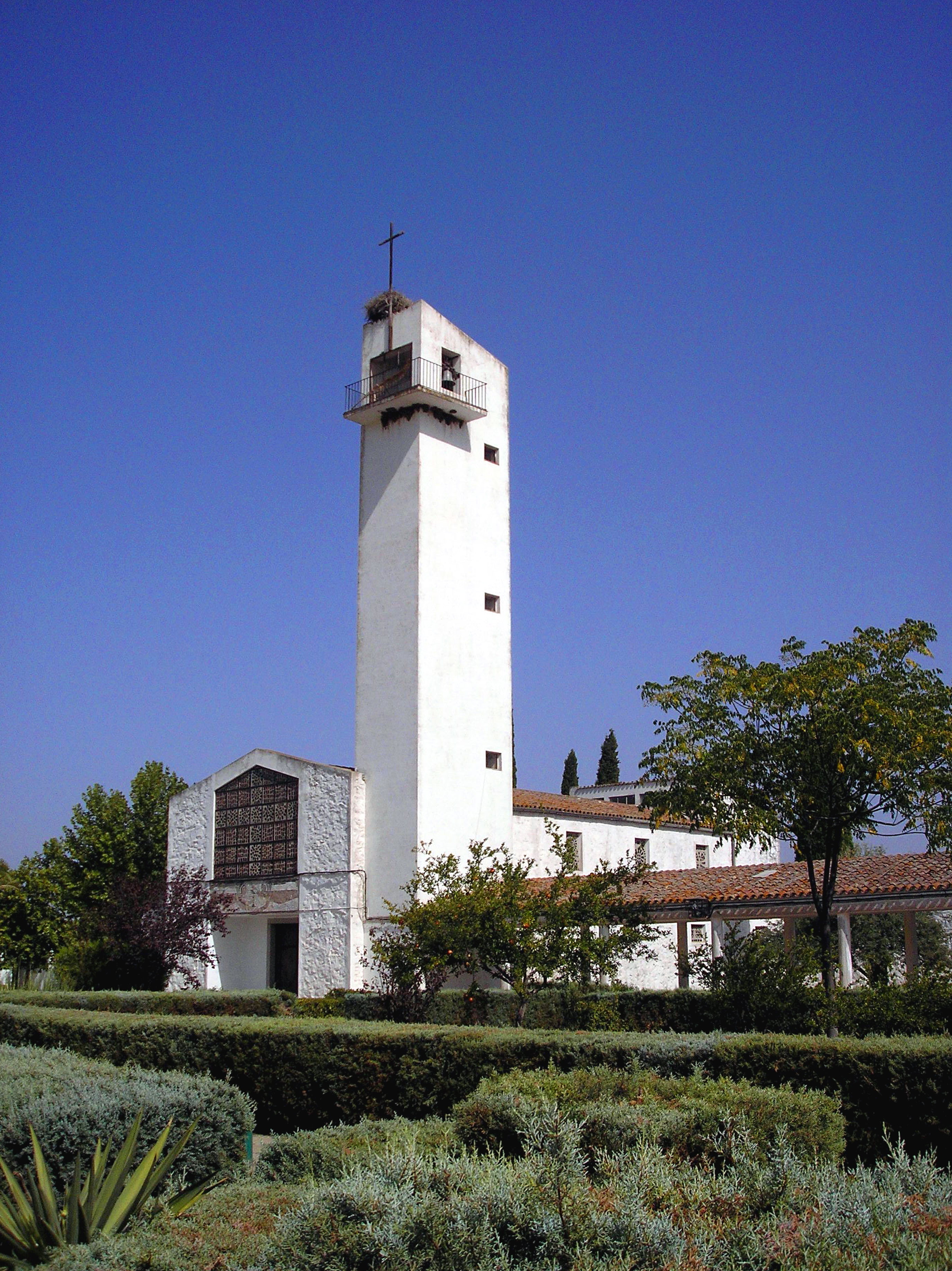 Church of Lácara (Badajoz)